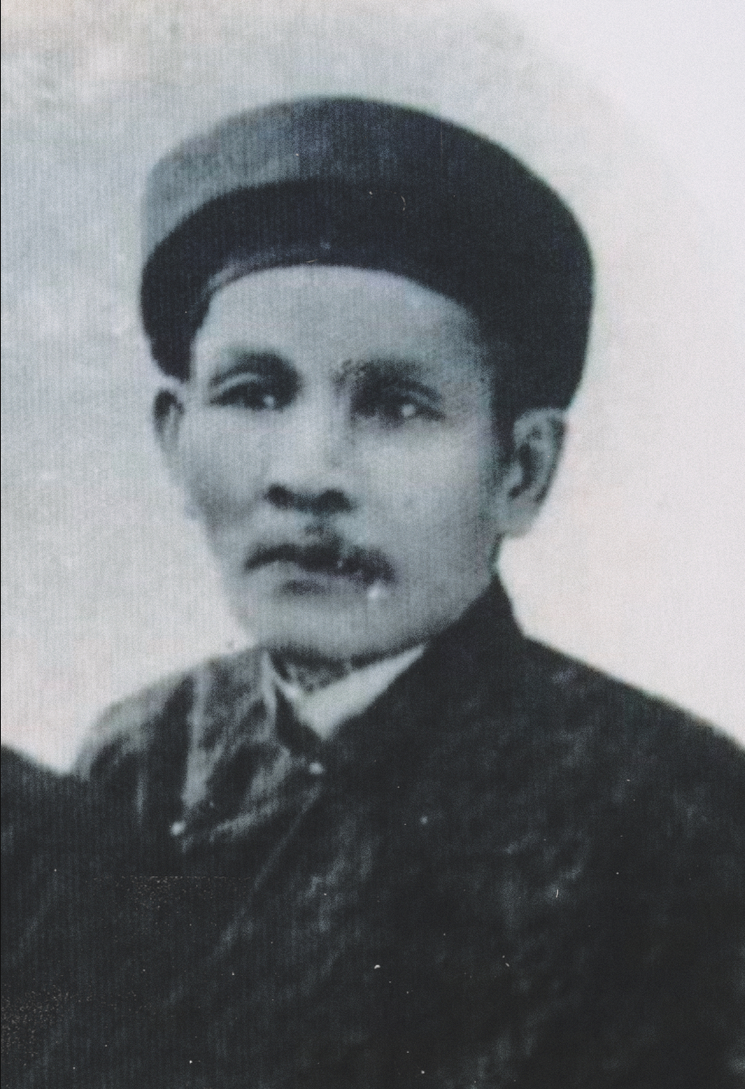 Huynh Thuc Khang, published in a book named "Các bậc tiền bối cách mạng trong thời thuộc Pháp", by Anh-Minh publisher, 1959. Taken by a user from forum.